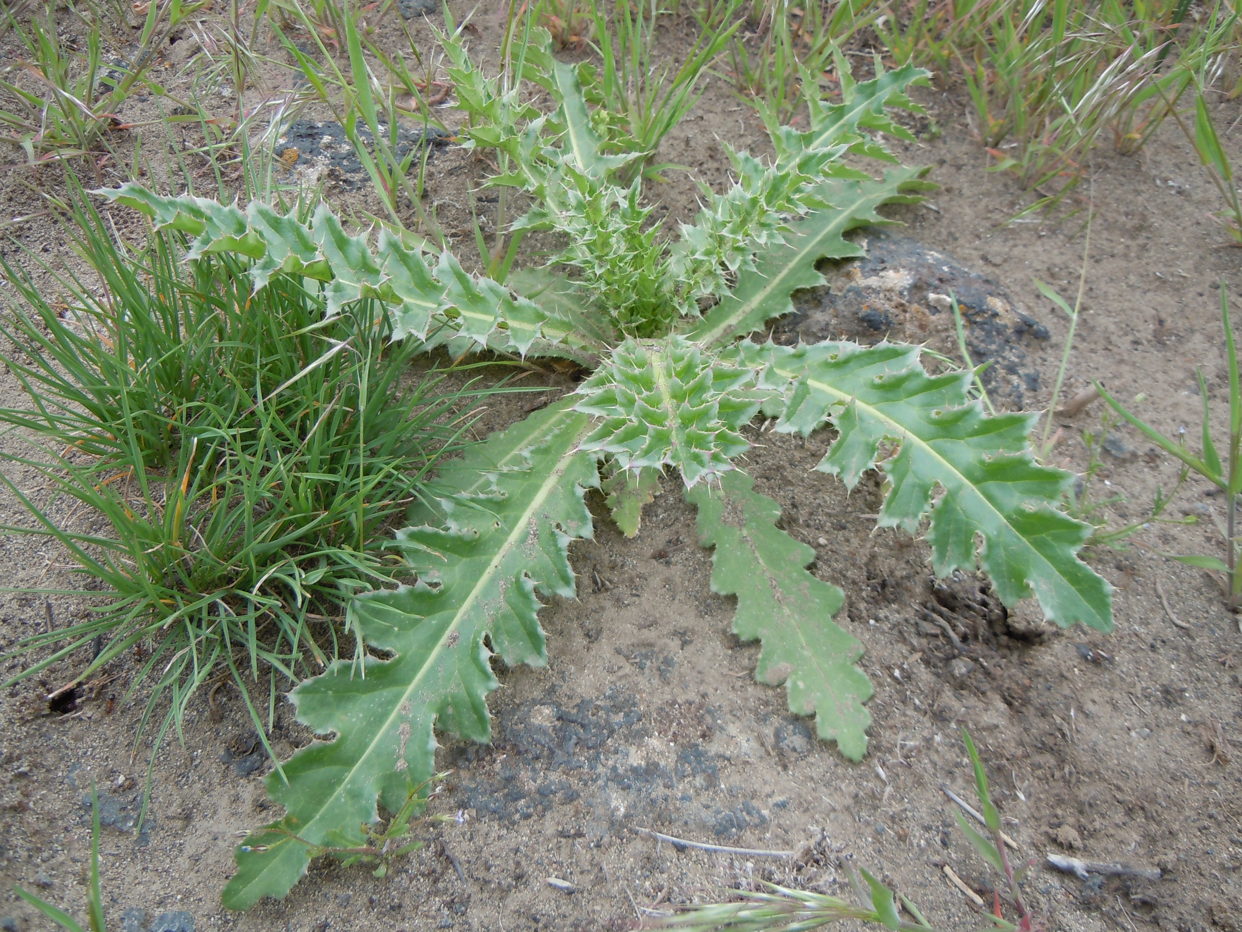 Carduus nutans seedlings are restricted to locally disturbed settings regardless of fire history.